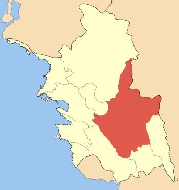 Locator map of Paramythia municipality (Δήμος Παραμυθιάς) in Thesprotia perfecture (Νομός Θεσπρωτίας) in Greece.